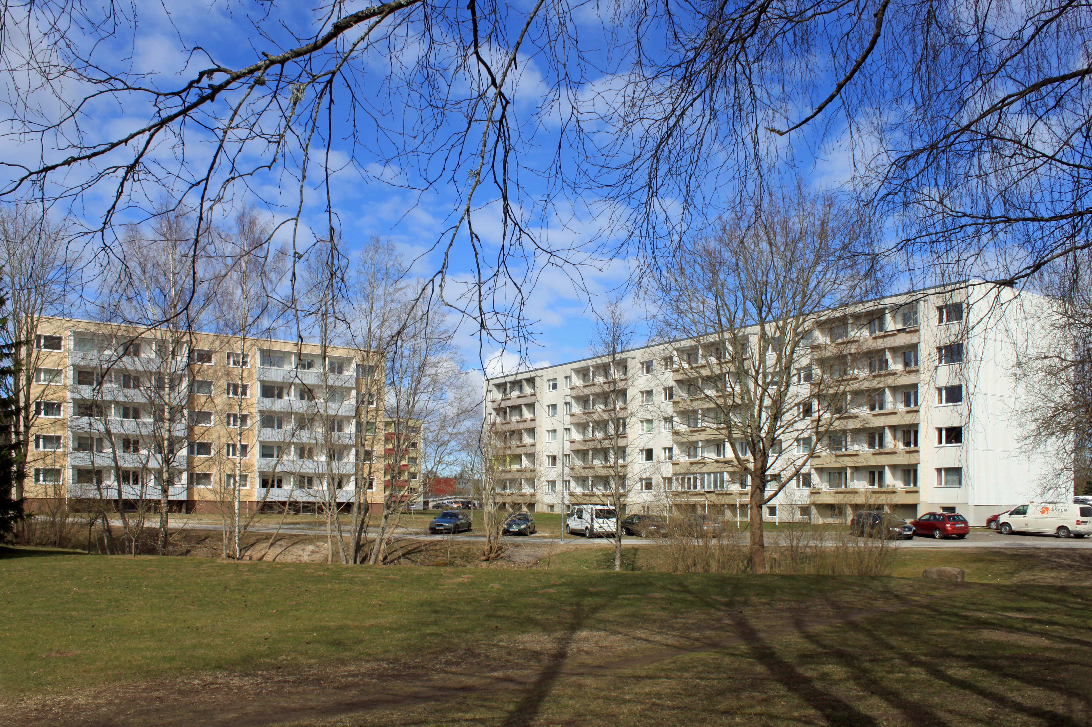 Apartment buildings in small town Kohila, Estonia